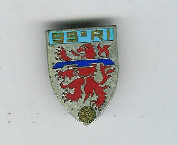 regimental badge of the 99st Infantry Regiment.